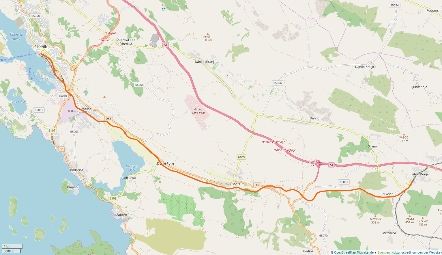 Map of M607 railway between Perković and Šibenik in Croatia. This map may be incomplete, and may contain errors. Don't rely solely on it for navigation.